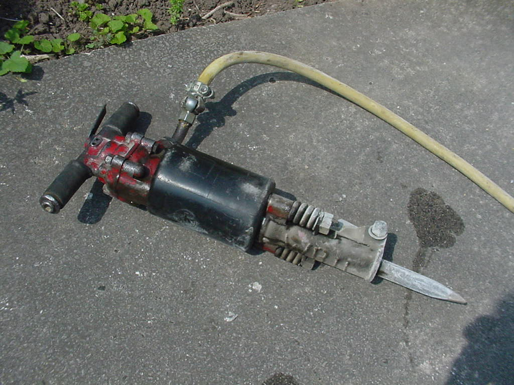 I took this photo. Pneumatic drill / jackhammer, with black silencer.